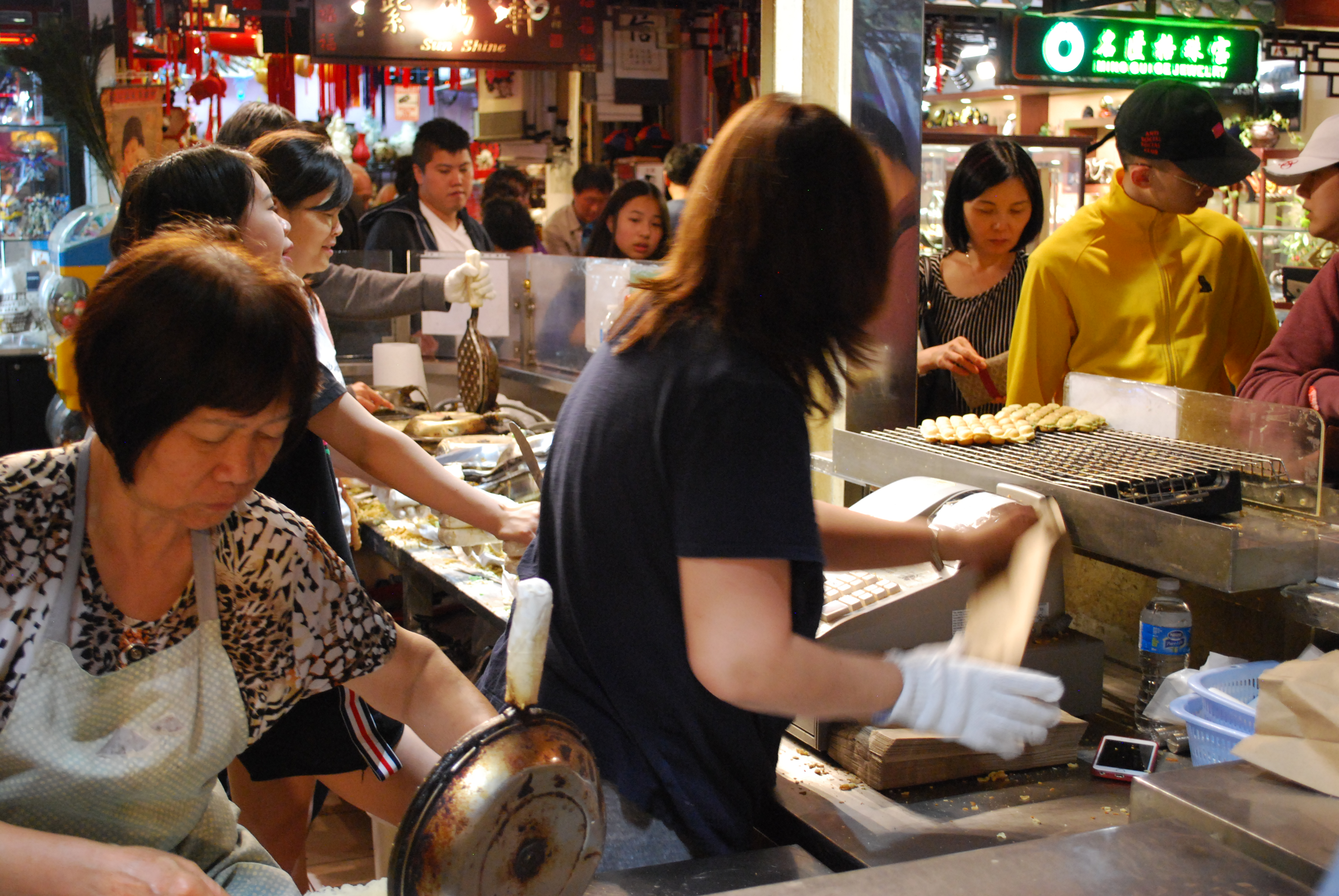 A stall in Pacific Mall selling Hong Kong style egg waffles and Chinese biscuit rolls.